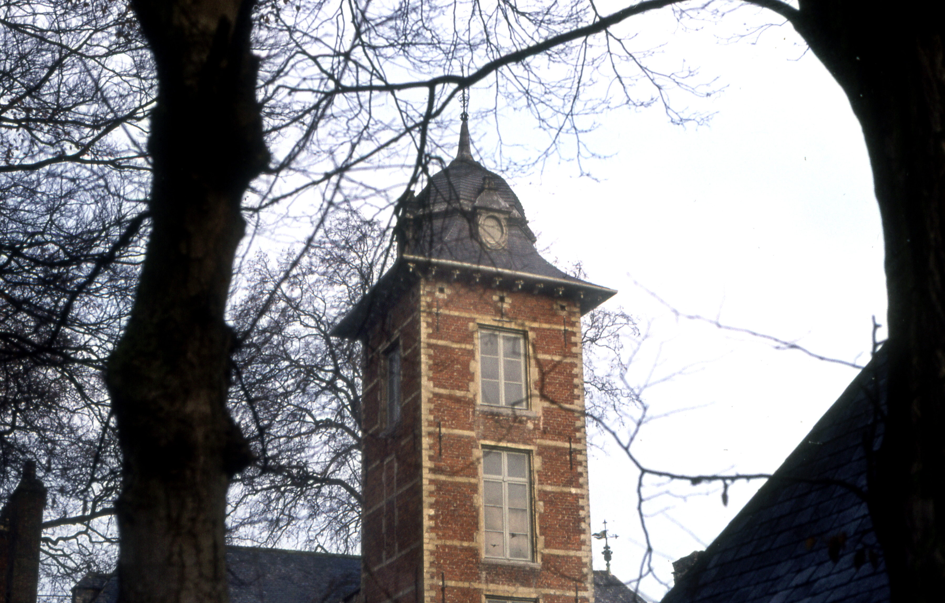 The tower of the castle